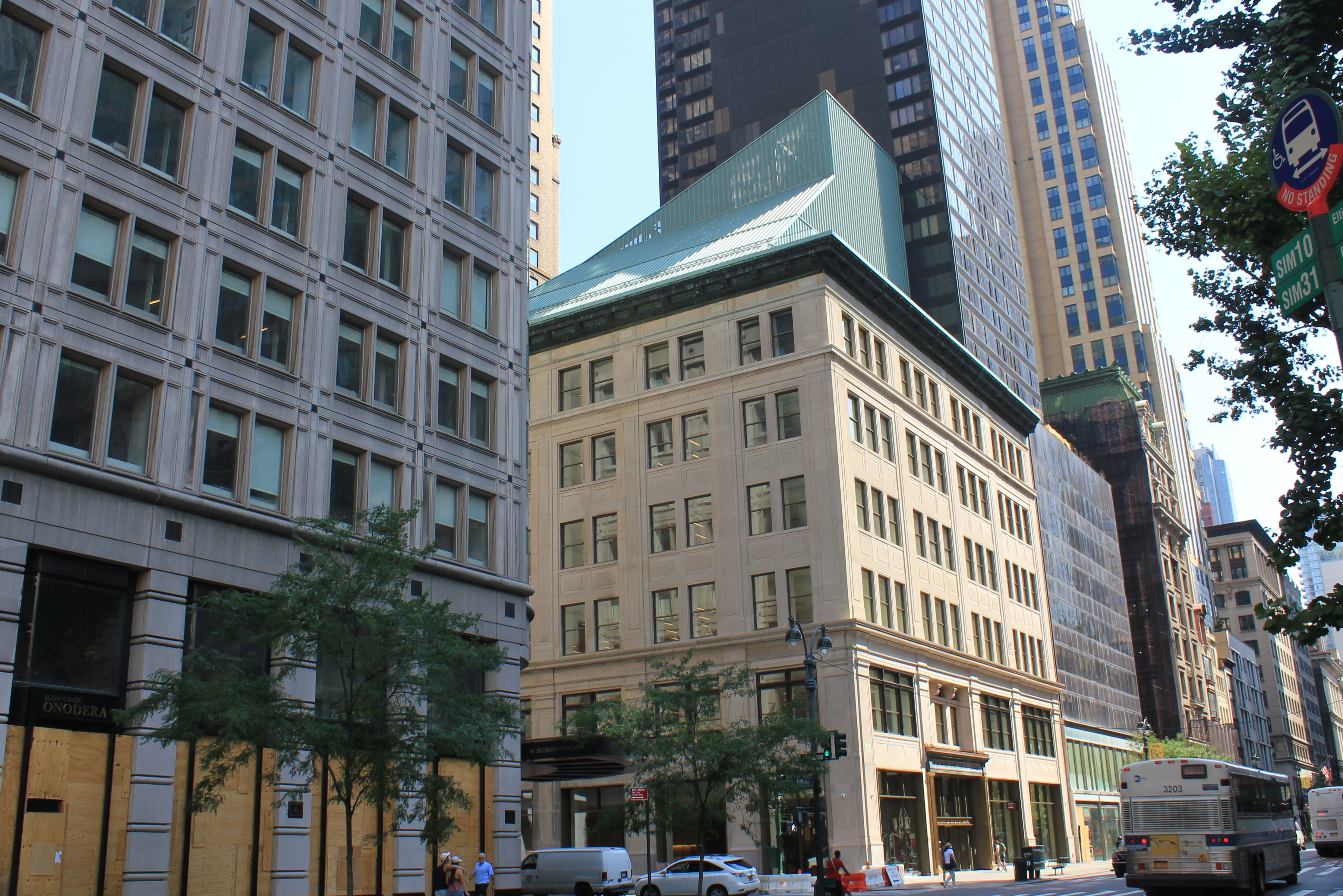 Looking south on Fifth Avenue toward the Mid-Manhattan Library (now known as the Stavros Niarchos Foundation Library) in Manhattan, New York, Jul 2020